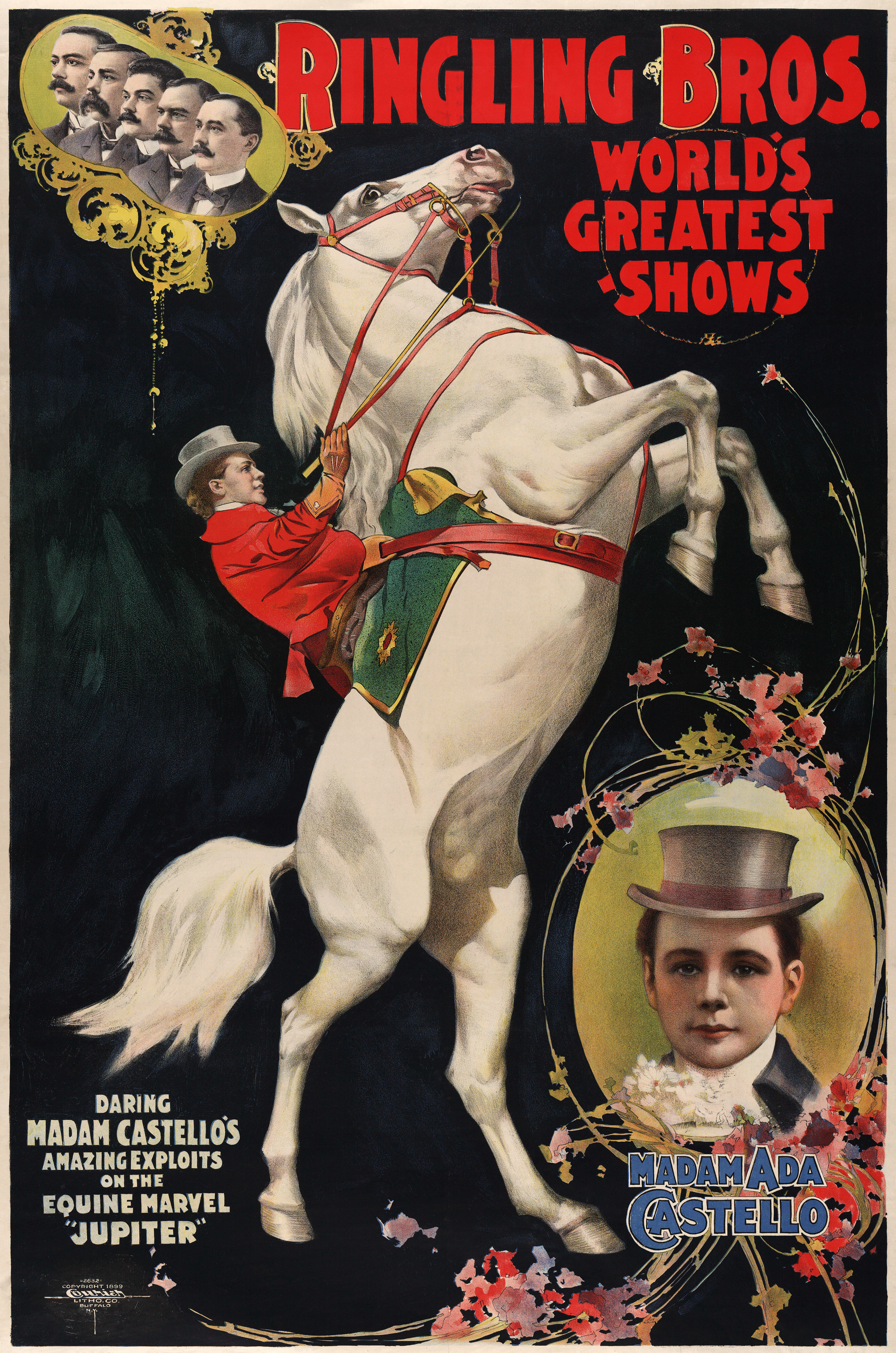 Ringling Bros. World's Greatest Shows: Madam Ada Castello. Daring Madam Castello's amazing exploits on the equine marvel "Jupiter". Promotional poster for Ringling Brothers by the Coach Lithographic Co., Buffalo, New York, ca. 1899. Here is what little I could find about here (click for a picture): Ada ("the Great Zazell") Wallett [Castello] Born January 5 1865 in Birmingham, England, died October 15, 1929 in Henderson, North Carolina. The Great Zazell performed across America and in several other countries as the first woman to be shot from a cannon in America. She also performed with her husband, David Castello Loughlin, in his equestrian act. David was the son of Dan Castello, one of the founders of the Barnum & Bailey Circus. From the Performing Arts Poster Collection at the Library of Congress More circus posters | More performing arts posters